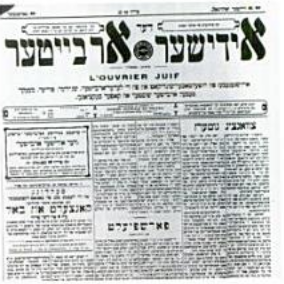 Cover of Der yidisher arbeyter. date unclear, but the newspaper had its last issue published on July 4, 1914